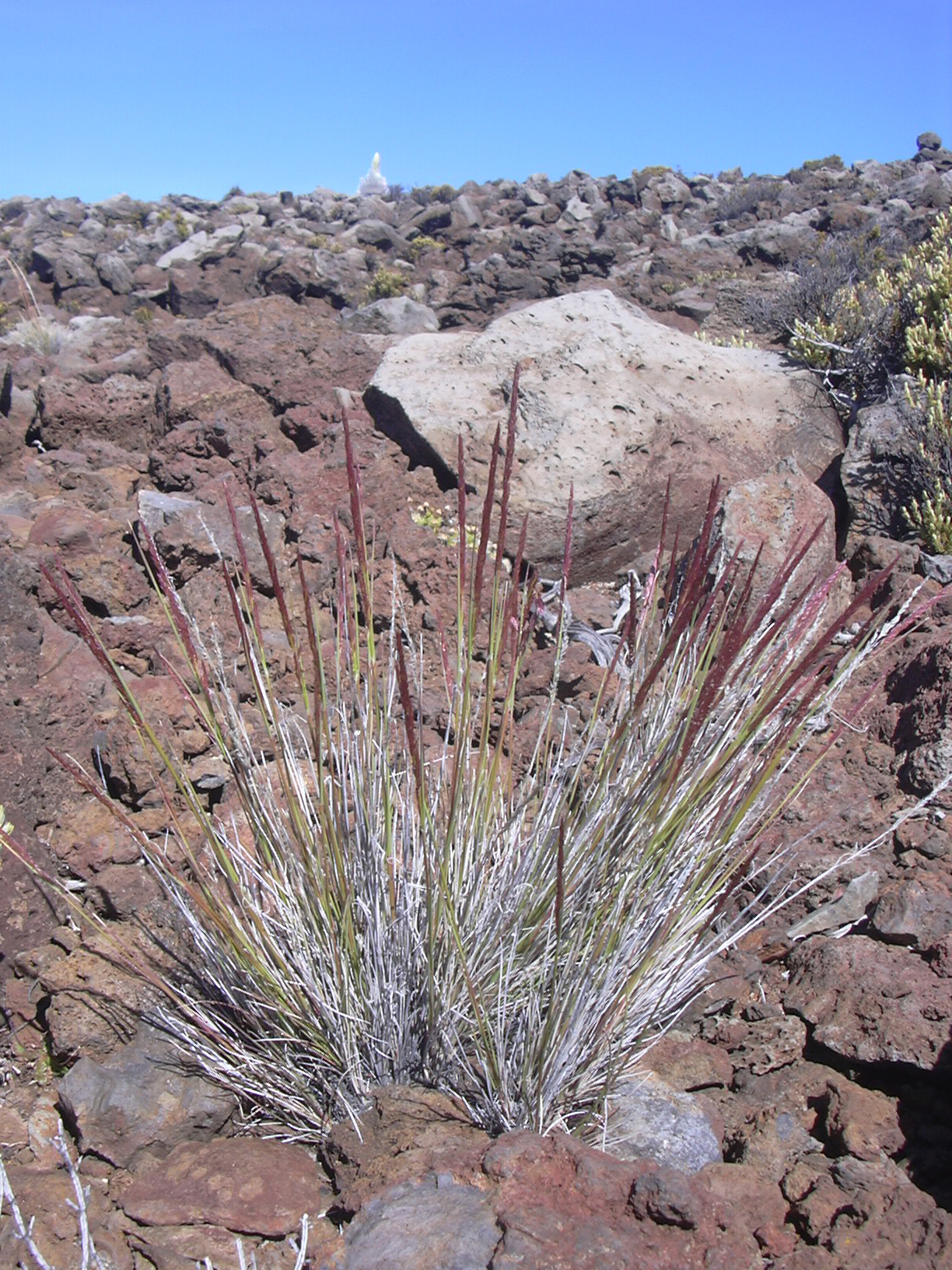 Agrostis sandwicensis (habit). Location: Maui, South rim Haleakala National Park